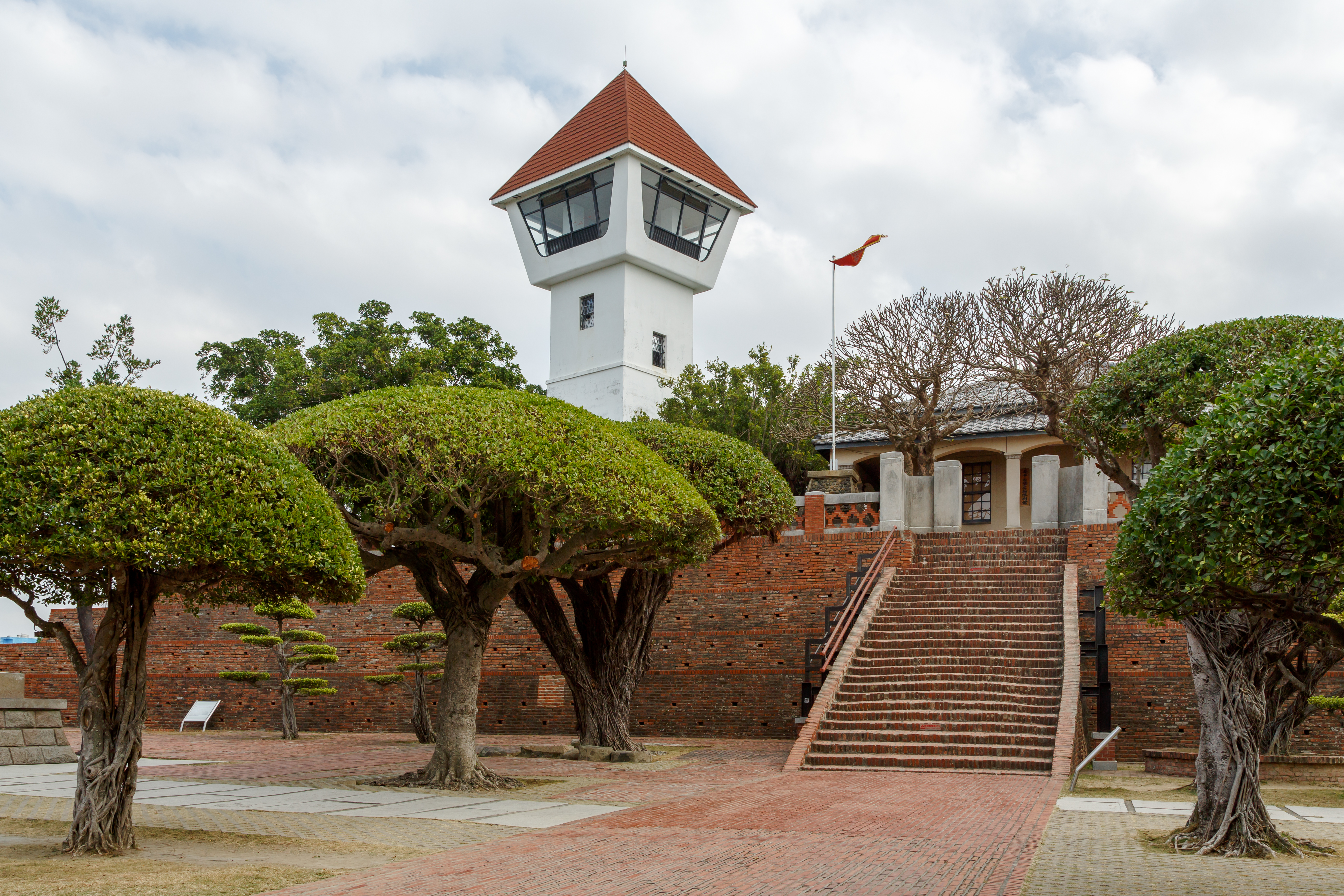 An Ping, Tainan, Taiwan: Former Dutch fortification "Fort Zeelandia".